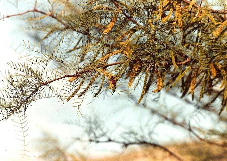 Prosopis chilensis (Molina)Stuntz var.chilensis branch with flowers, Chilean Matorral scanned from a paper copy.